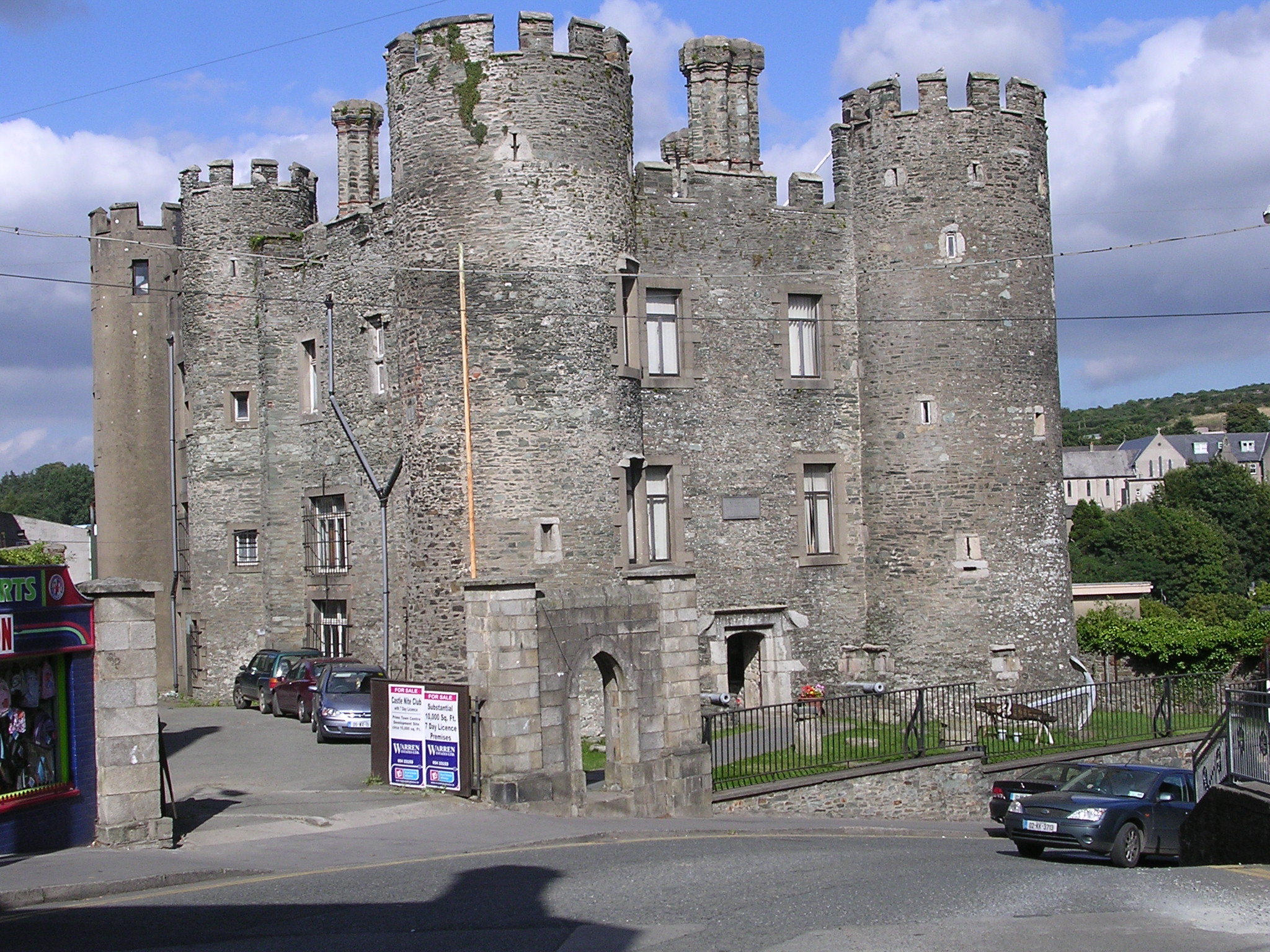 Enniscorthy Castle